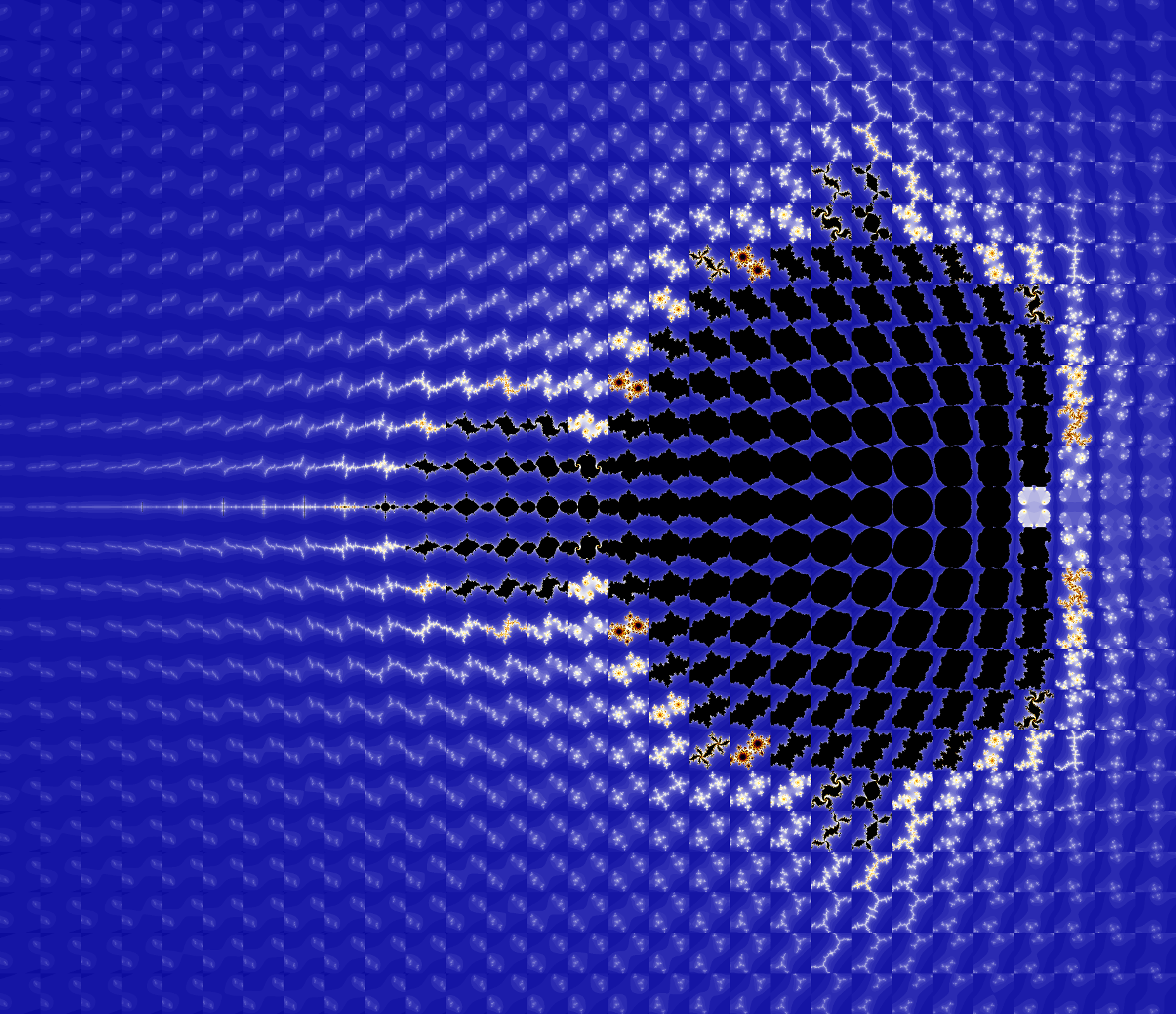 Julia sets with c ranging from -2.2-1.2i to 0.6+1.2i with a 0.1 step in both directions, generated by the python script below and scaled down using inkscape. A larger version of this file can be found in the history.